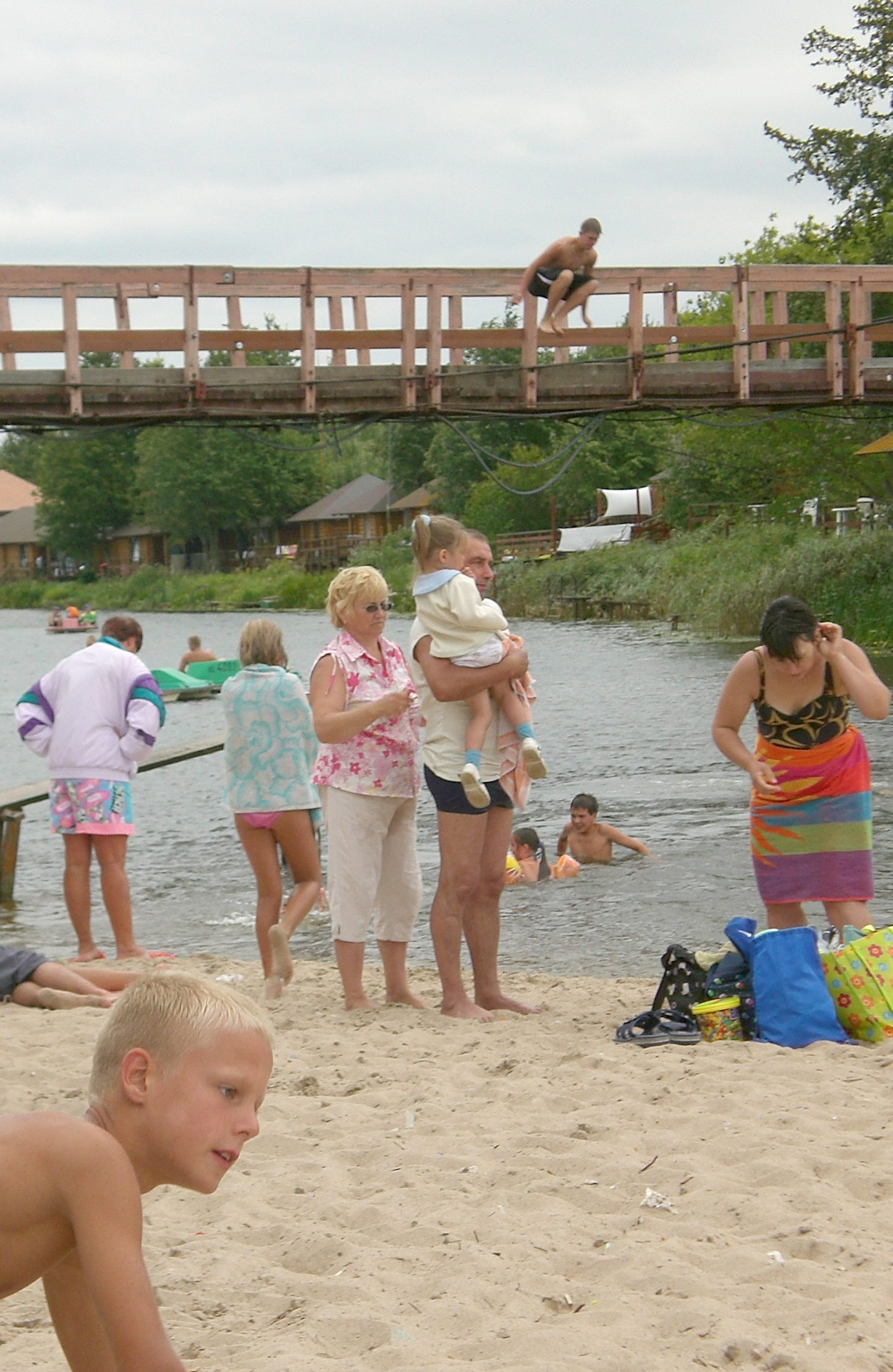 A jump from the 'Bridge of Apes' in the Baltic Sea resort Šventoji, 10 north of Palanga in Lithuania